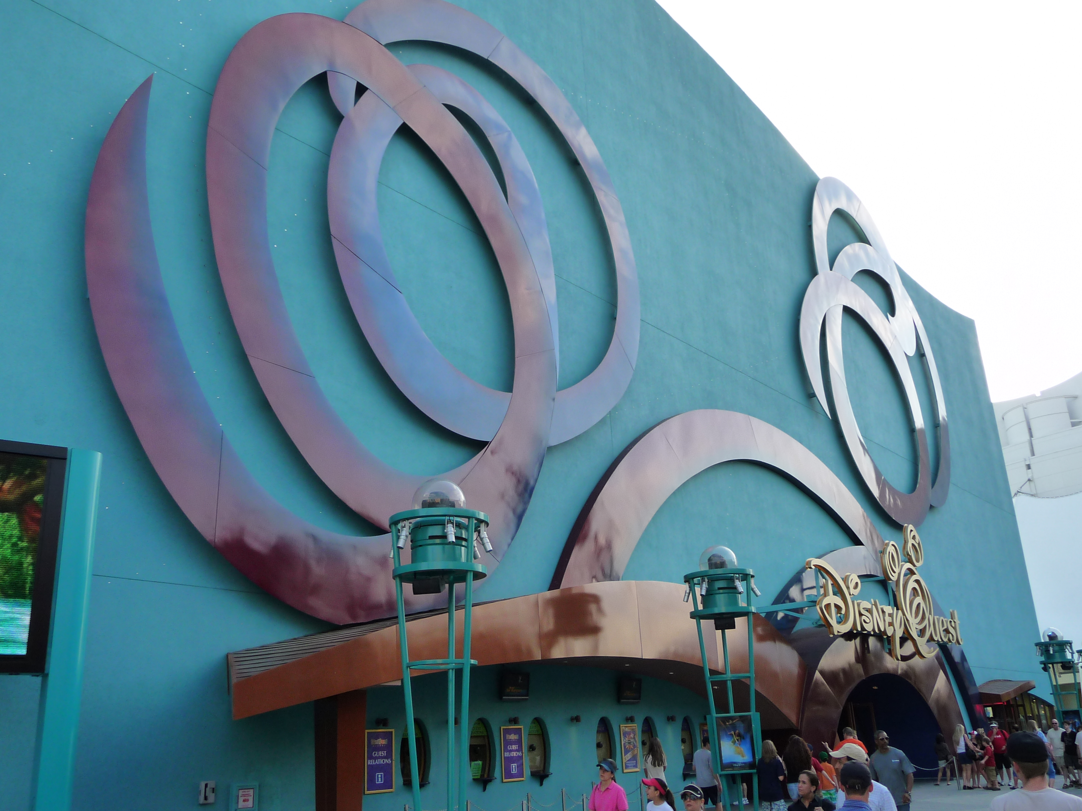 Disney Quest